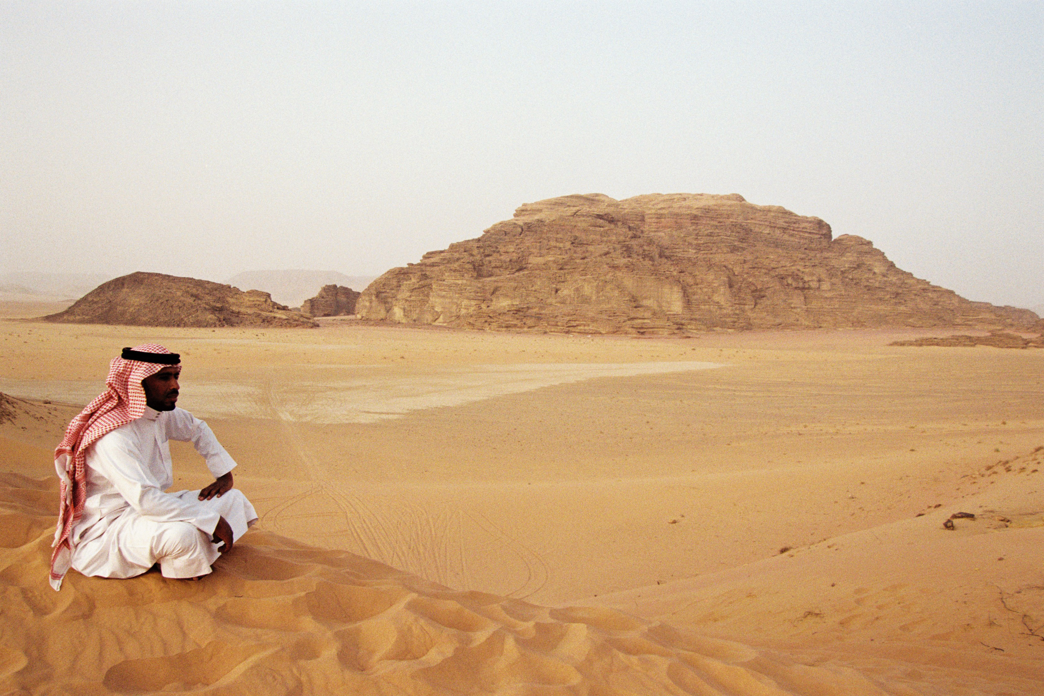 Wadi Rum Protected Area, Jordan